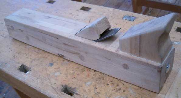 Jointer plane for making thick shavings (splints) for making shavings baskets (splint baskets). The angle is different from ordinary jointer plans. The wood to be planed is soaked in water for one app. one week beforehand.